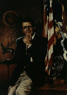 Raymond J Donovan Upload Source - U.S. Department of Labor Biography evrik (Raymond J Donovan)